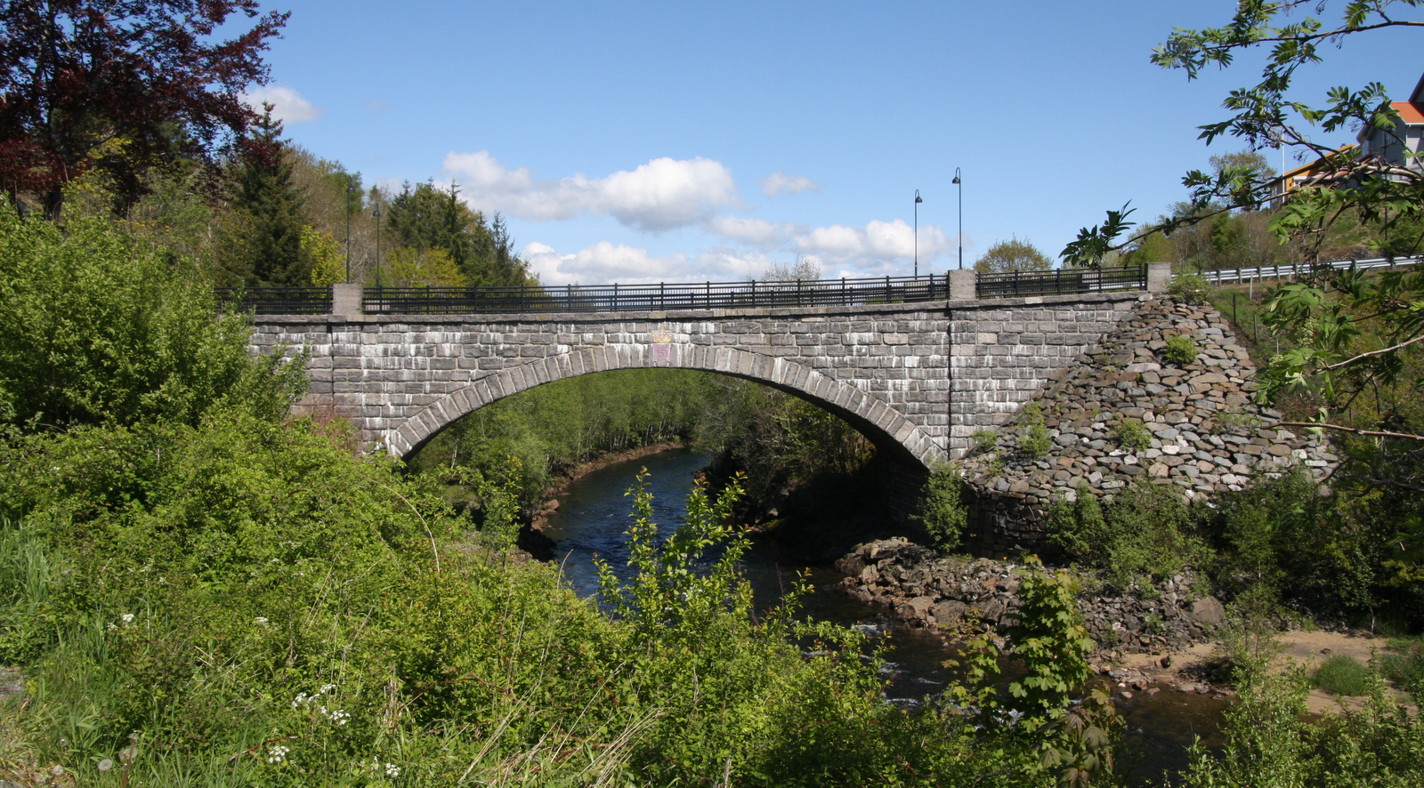 Åros bru over the river Sokno in Sokndal, Rogaland